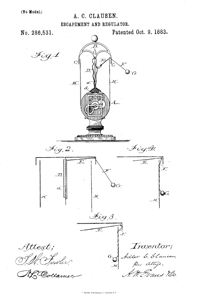 Drawing from patent application for the Flying pendulum clock.